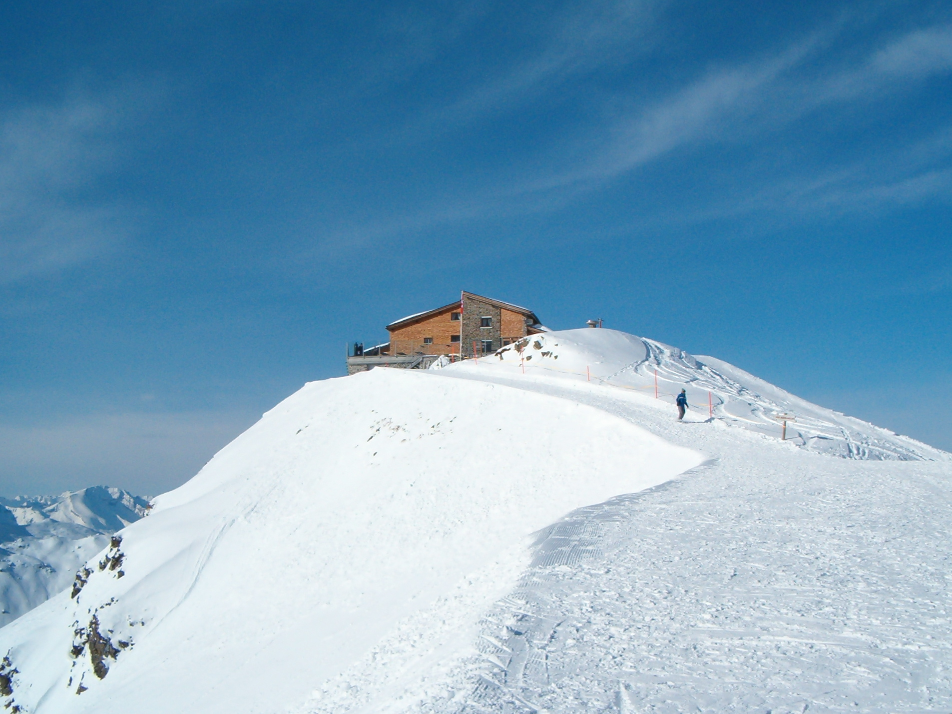 Hoernli Moutain Hut, Arosa/Switzerland